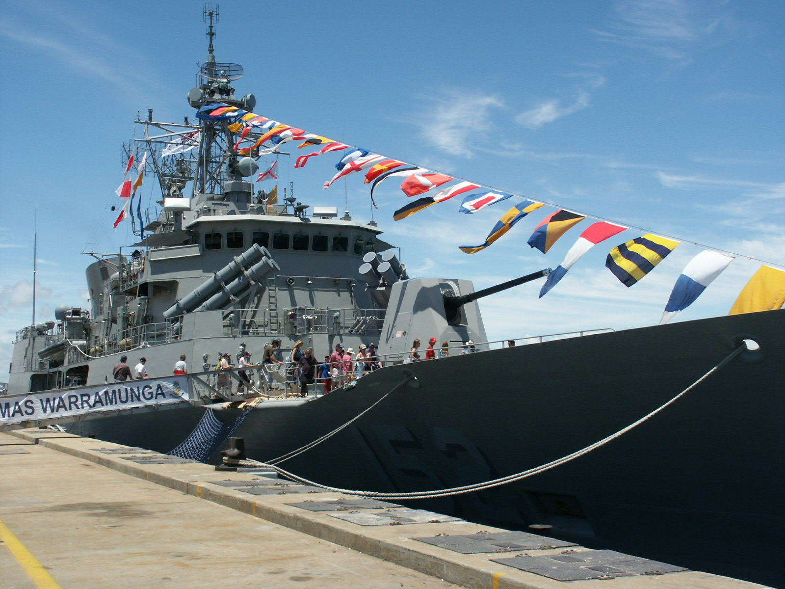 HMAS Warramunga (FFH 152) at Garden Island, Western Australia.